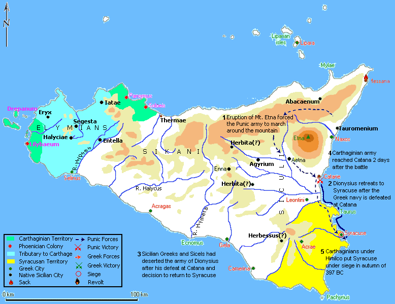 This map represents the Punic siege of Syracuse in 397 BC